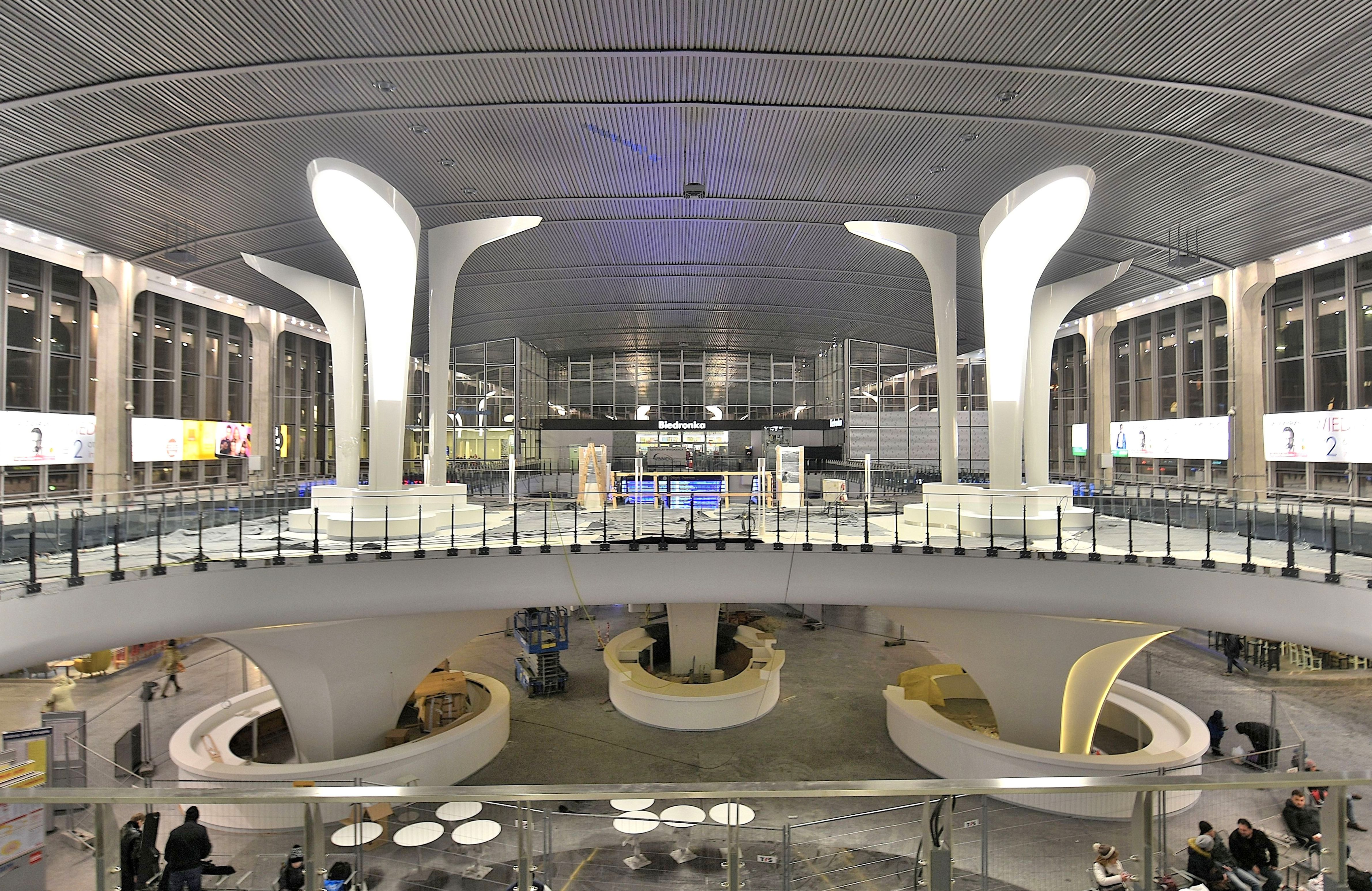 Main hall Warszawa Centralna railway station